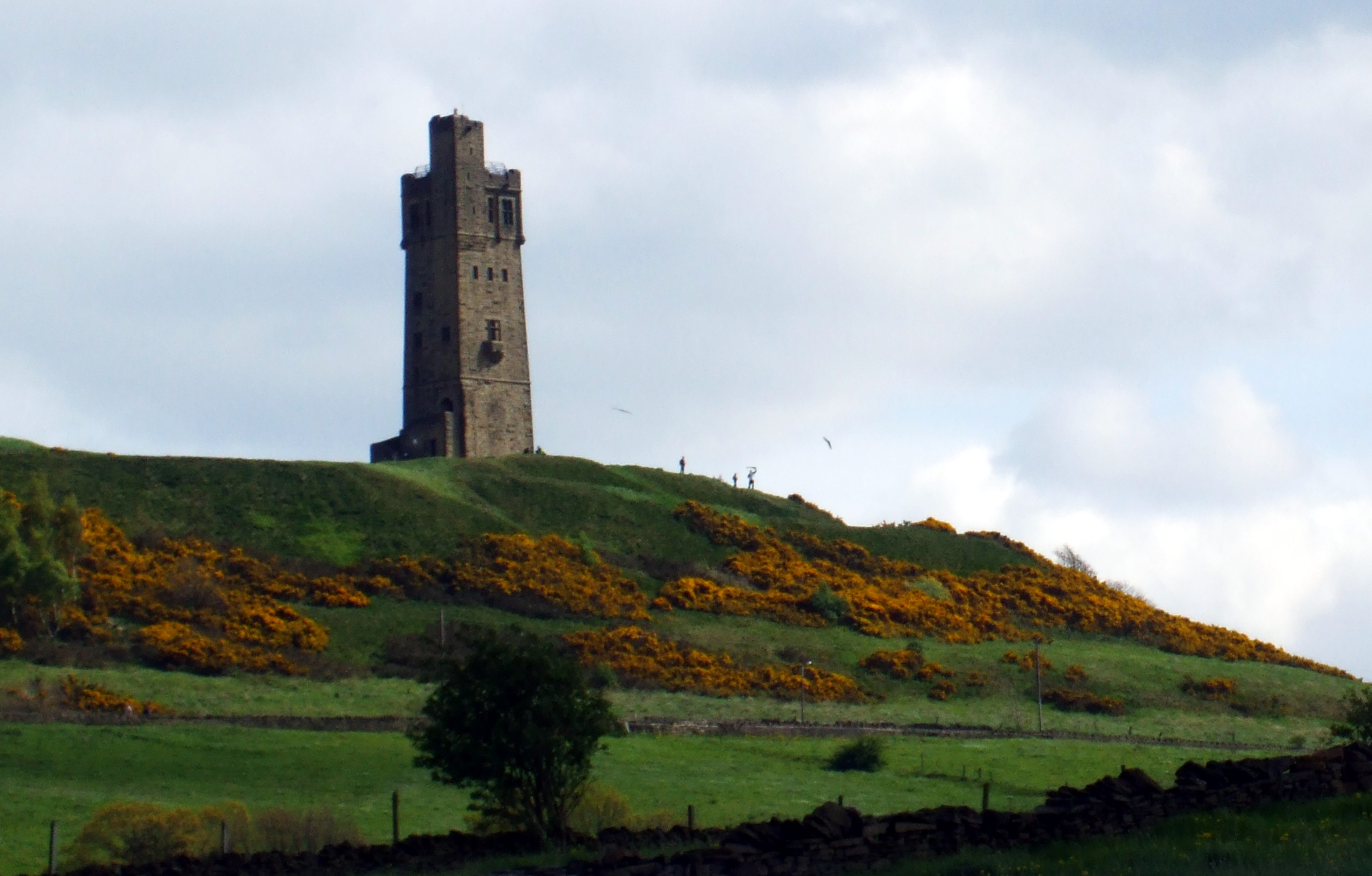 photograph of Castle Hill & Victoria Jubilee Tower